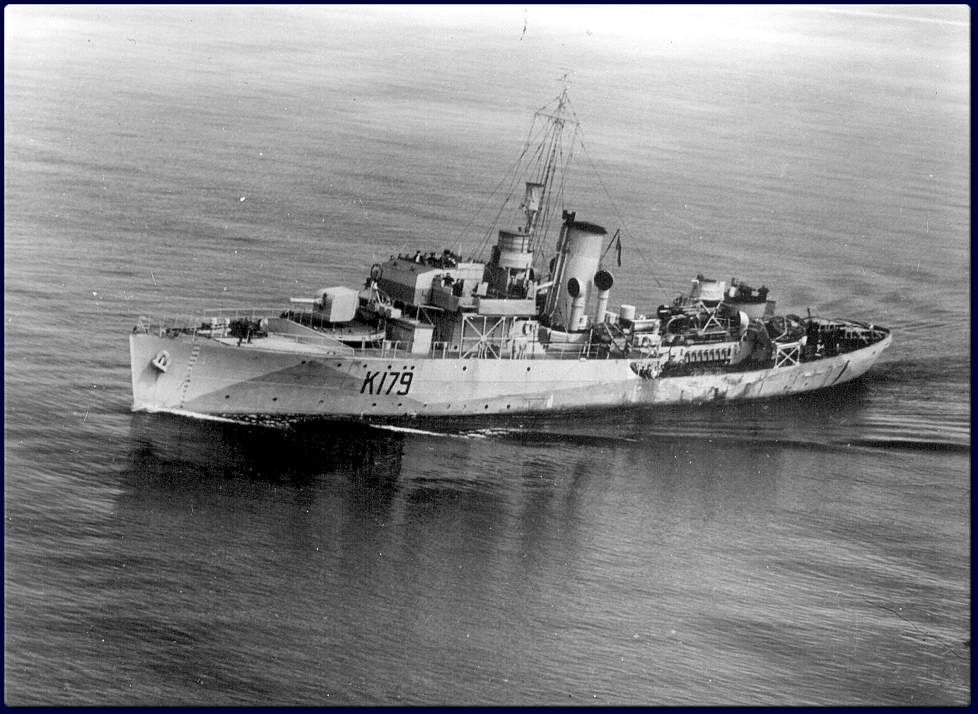 Aerial view of HMCS Buctouche circa 1944-1945.